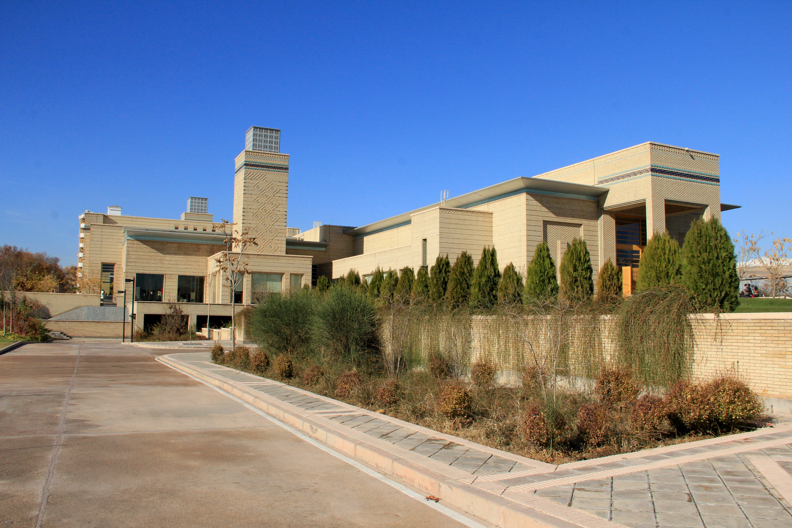 Ismaili Center, 47 Ismoil Somoni Avenue; 734000 Dushanbe, Tajikistan